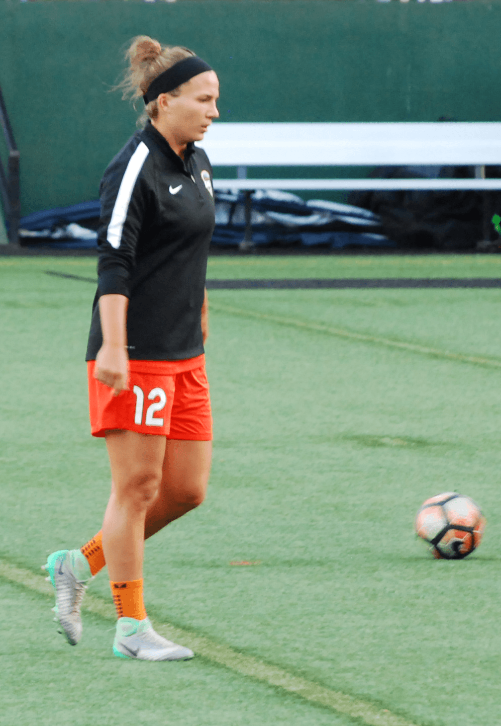 Amber Brooks, Seattle Reign FC vs Houston Dash, April 22, 2017 Memorial Stadium, Seattle, WA